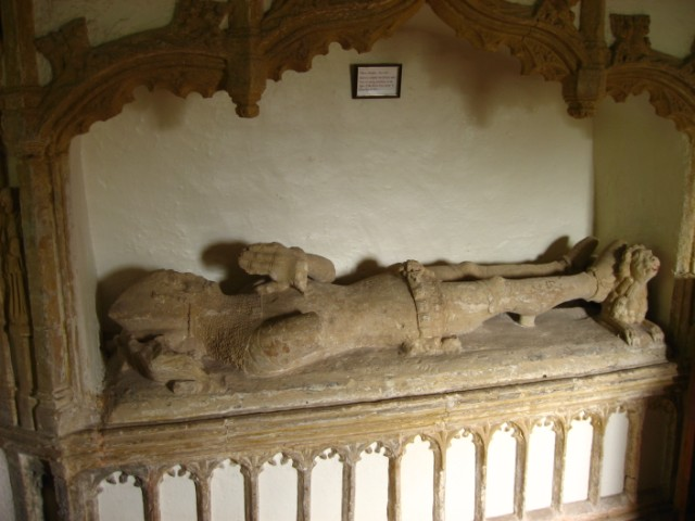 Stone figure in Upton castle chapel The tomb effigy is thought to be that of William Malefant who died in 1362. He is in full armour and lies under a canopied tomb of the decorated period. (taken from information available in the chapel)